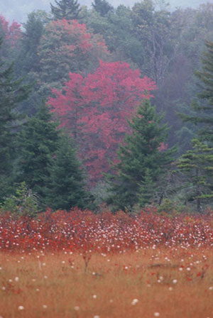 Cranberry Glades Botanical Area, Pocahontas County, West Virginia, USA